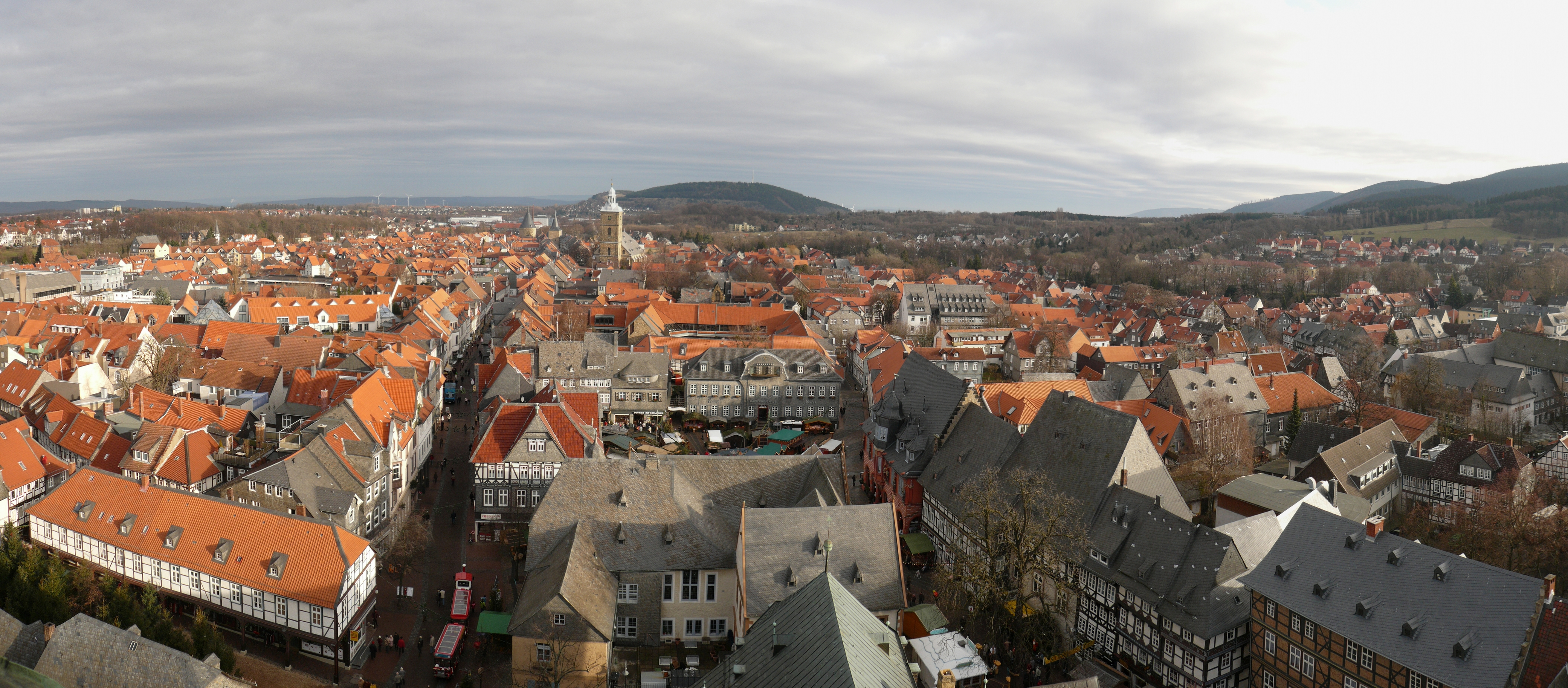 View on the town centre of Goslar